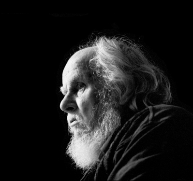 Small scan of B&W photo of Ron Davies OBE, photographer.